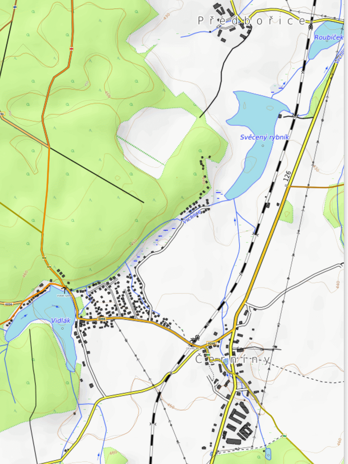 Svěcený Pond 2. Schema of Surroundings. Kutná Hora District, the Czech Republic.